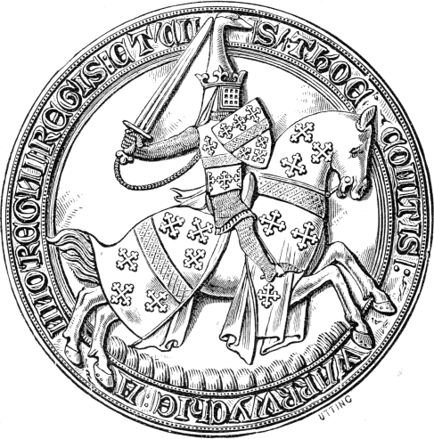 Seal of Thomas de Beauchamp (died in 1369), Earl of Warwick. Date of seal : 1344.